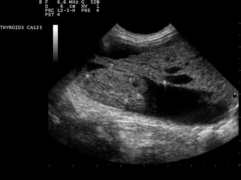 Comet tail artifacts from colloid. Medical ultrasound image. Provided as-is. Please feel free to categorise, add description, crop.